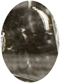 Reflection of the Cherub with Chariot Egg, photographed in the Von Dervis Exhibition, St. Petersburg